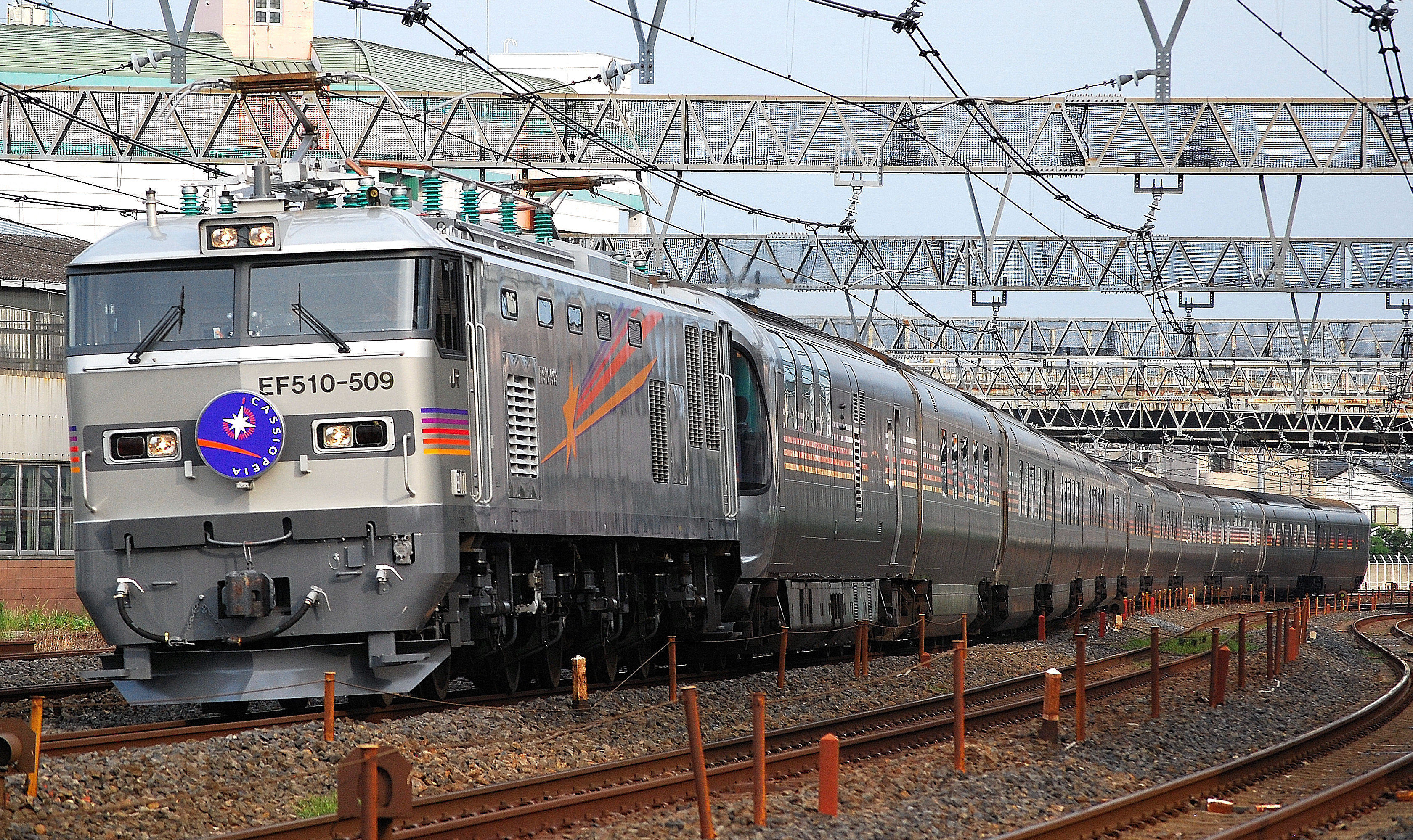 The "Cassiopeia" sleeping car service hauled by JR East EF510-509 between Akabane and Urawa Stations